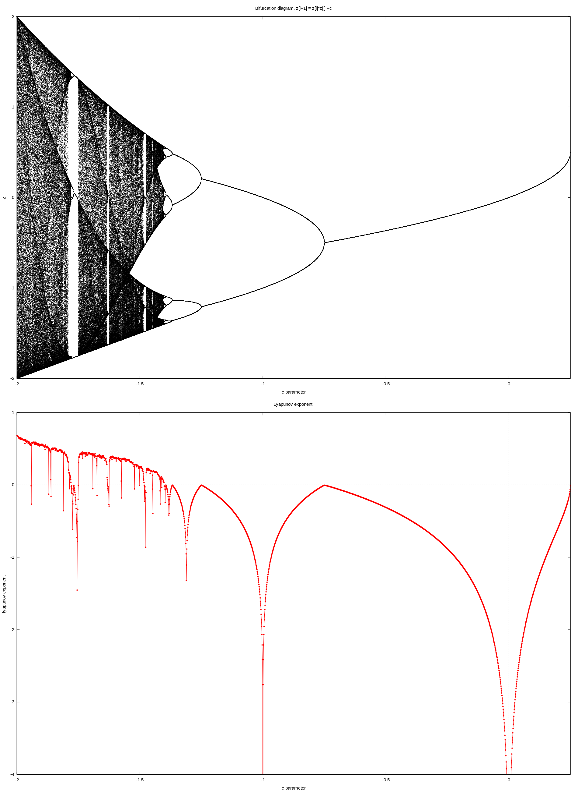 Real quadratic map : bifurcation diagram and Lyapunov exponent